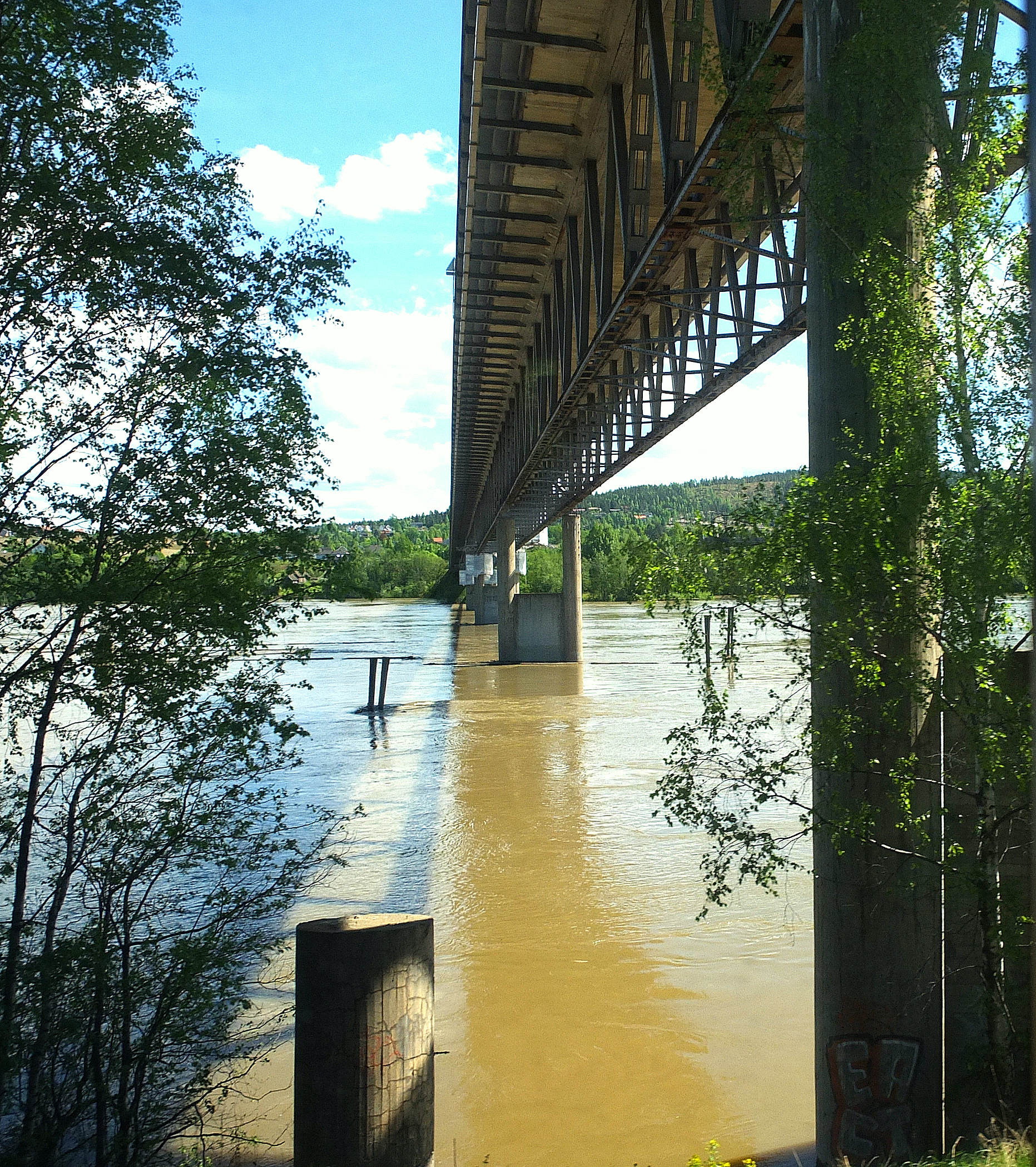 Fet, Norway